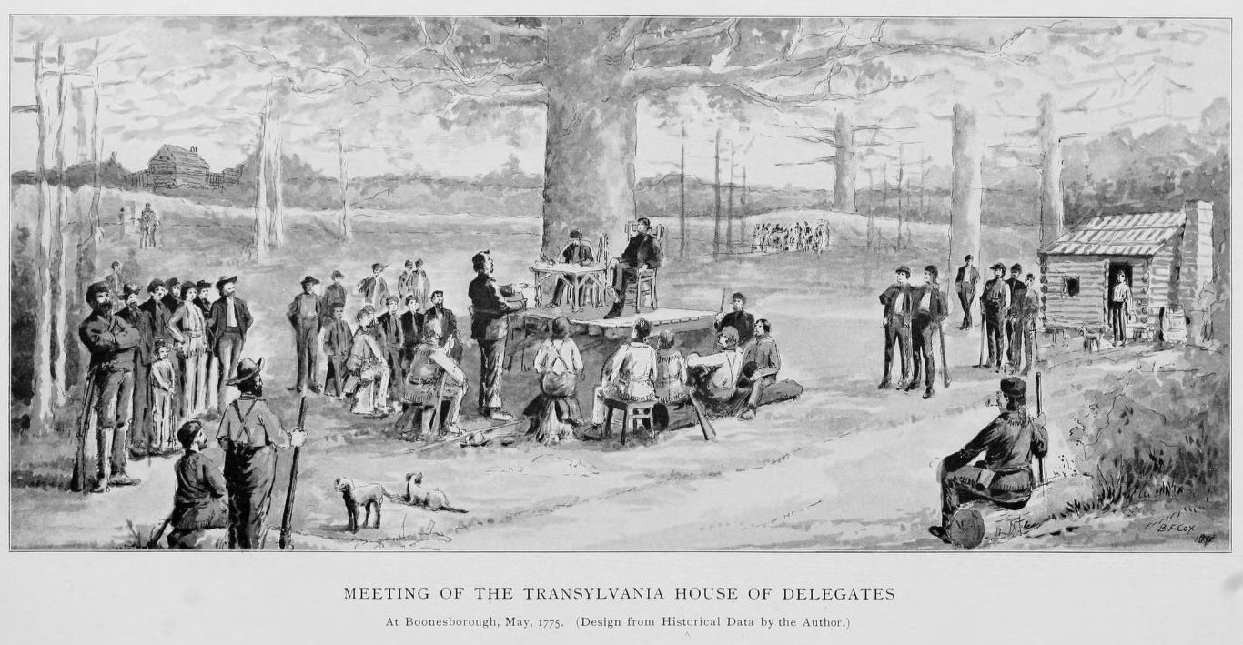 Meeting of the Transilvania House of Delegates. At Boonesborough, May, 1775. From "Boonesborough; its founding, pioneer struggles, Indian experiences, Transylvania days, and revolutionary annals" by George Washington Ranck (1901).